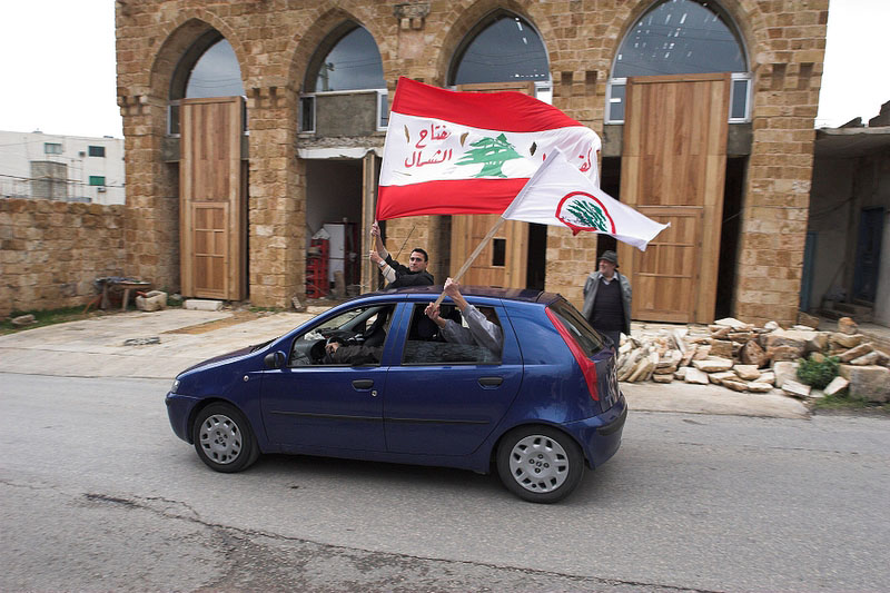 Supporters of the Lebanese Forces.Forces Libanaises